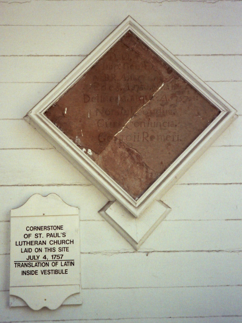 Cornerstone with Latin inscription preserved from 1757 church, placed on wall of Pluckemin Presbyterian Church.